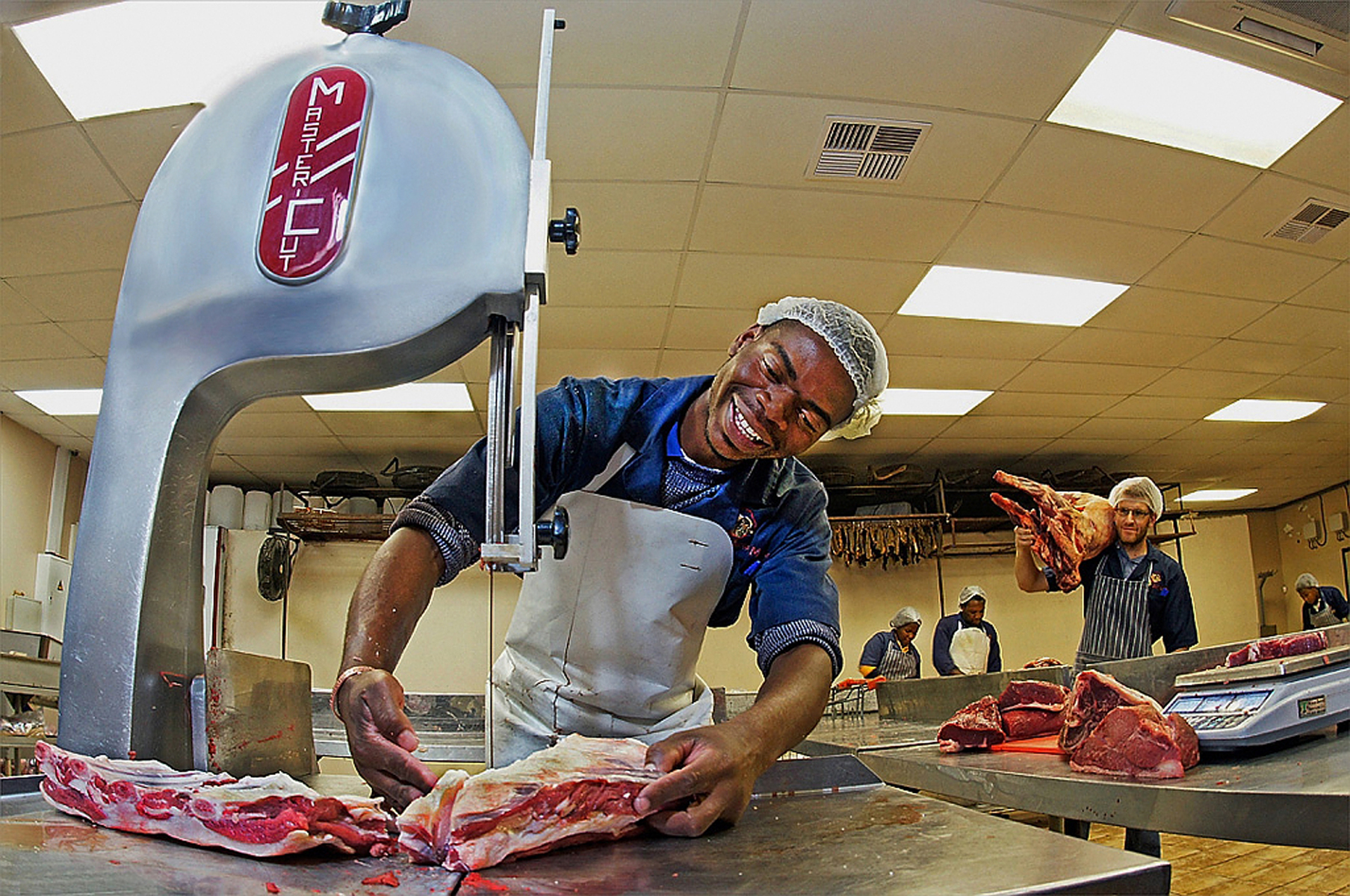 SONY DSC This is an image of "African people at work" from South Africa